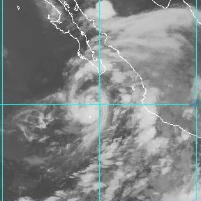 Tropical Storm Emilia passes north of Socorro Island